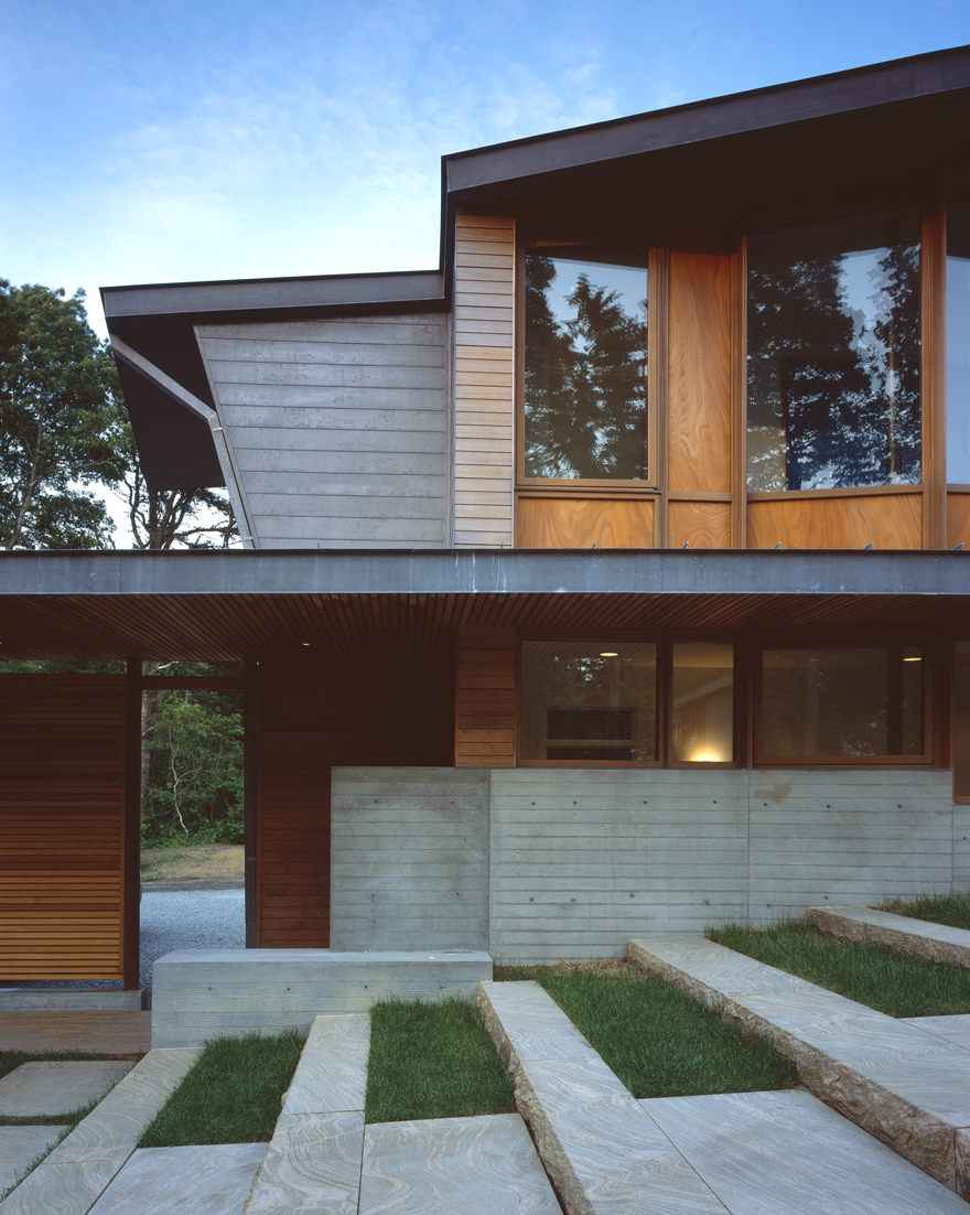 View of the Orleans House designed by Charles Rose